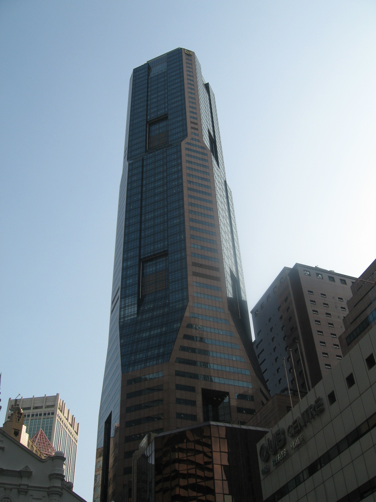 Republic Plaza. Taken by Terence Ong in March 2006.